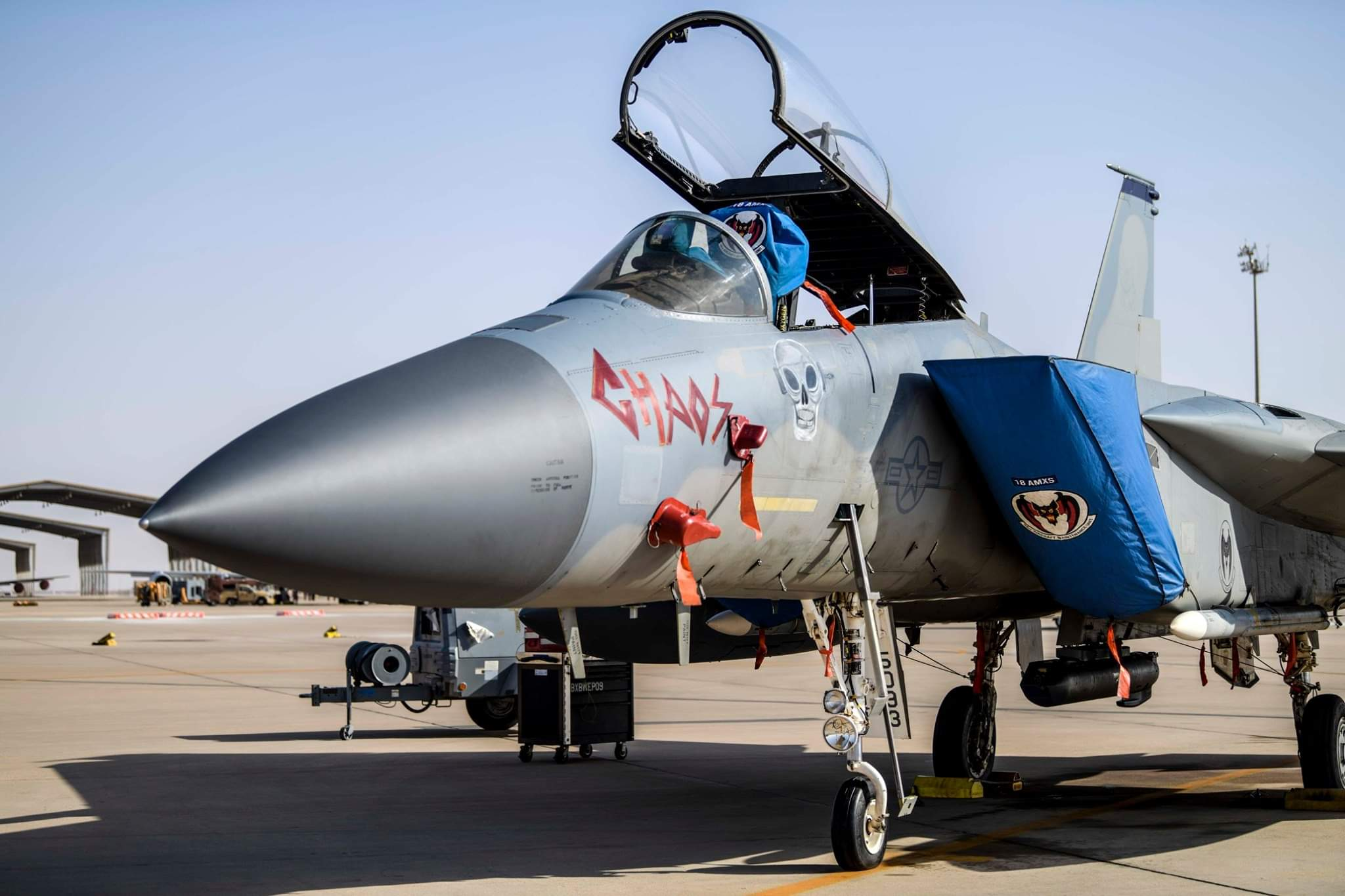 A USAF F-15C of the 44th EFS sits parked on the ramp at Prince Sultan Air Base, Saudi Arabia, on June 2nd, 2020. Visible on the aircraft is one AIM-120 AMRAAM and a SNIPER Advanced Targeting Pod.